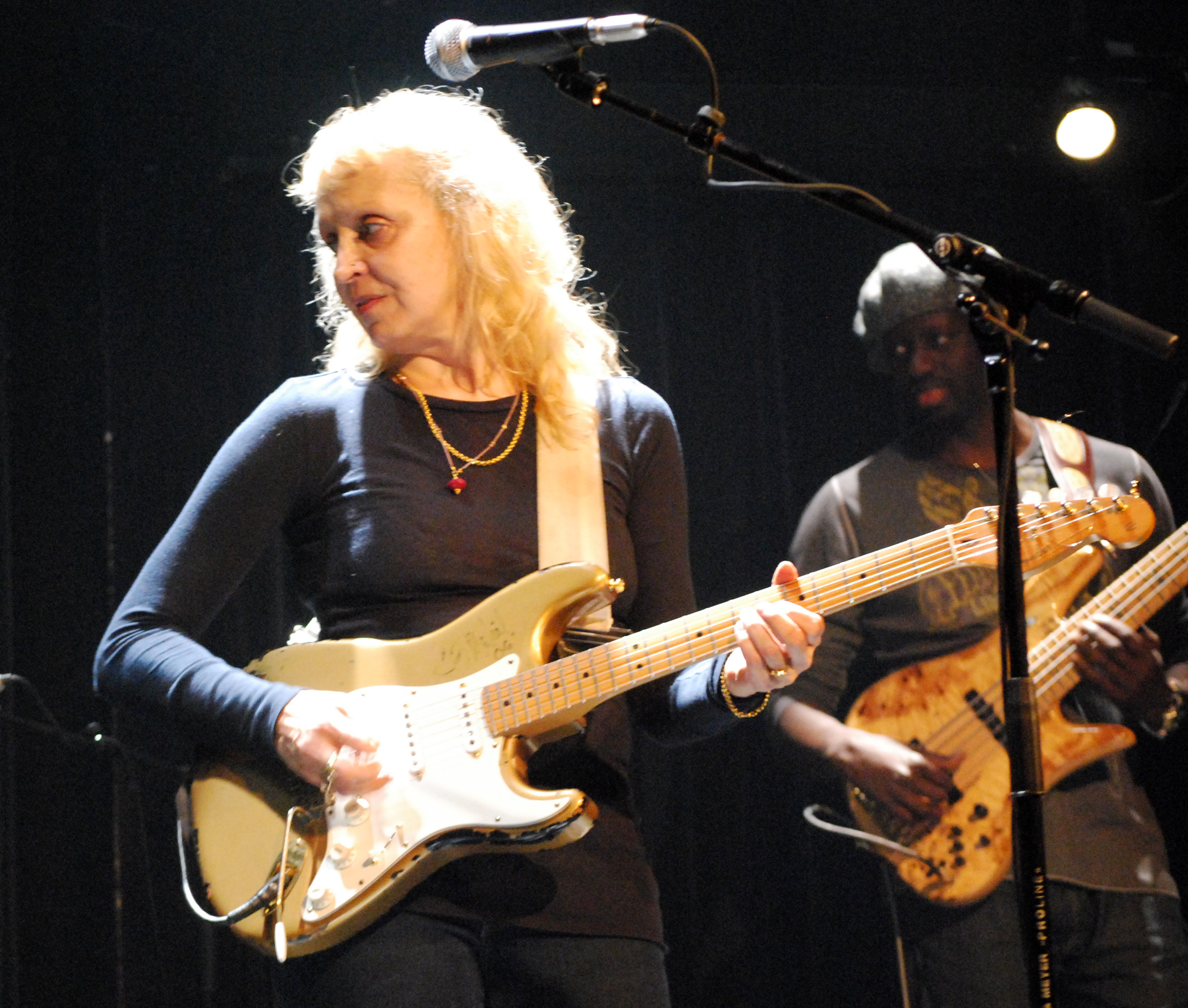 Leni Stern, Treibhaus Innsbruck, 2009